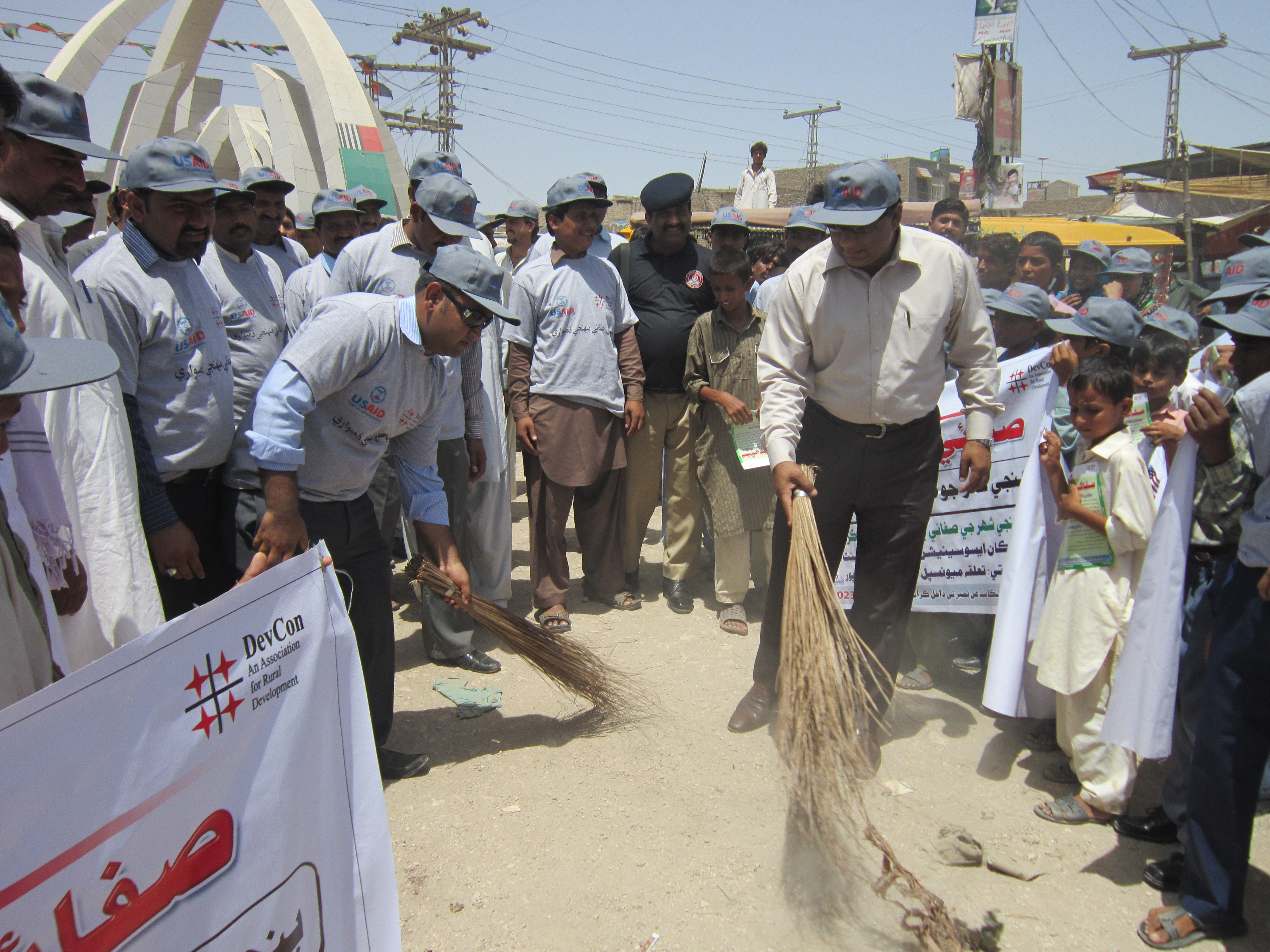 Assistant Commissioner of township Shahdadpur, district Sanghar, is seen participating in the week-long cleaning drive in Shahdadpur, district Sanghar, Sindh. The drive was a part of a project on municipal oversight in the said taluqa (township), being implemented by DevCon, an Association for Rural Development under USAID’s Citizens’ Voice Project.